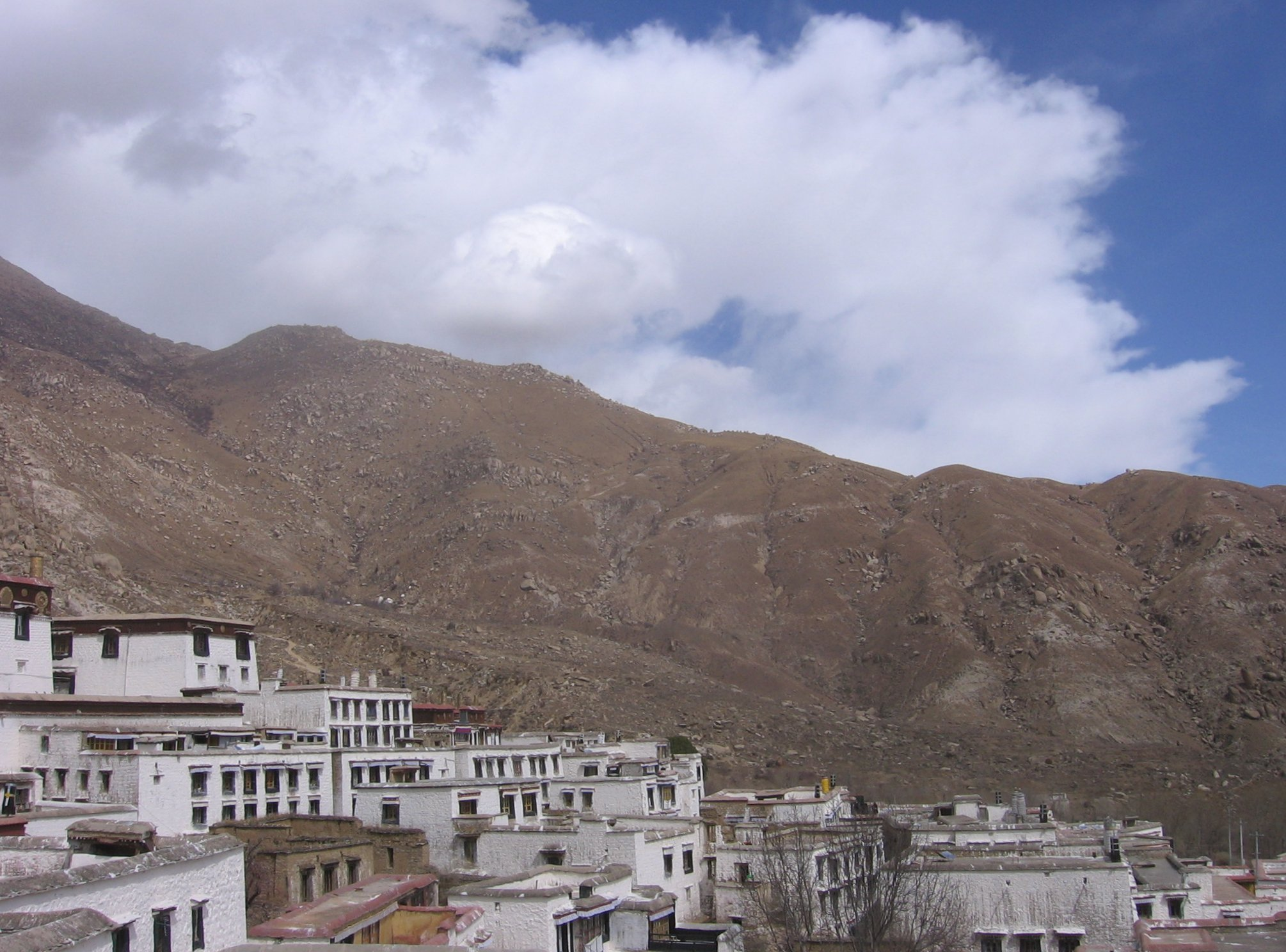 View of Tibet's Drepung ('Bras-spungs, Zhaibung) Monastery, on the outskirts of Lhasa, and the surrounding mountains. Prior to the modern exile period, the Drepung Monastery was closely associated with the Dalai Lama.